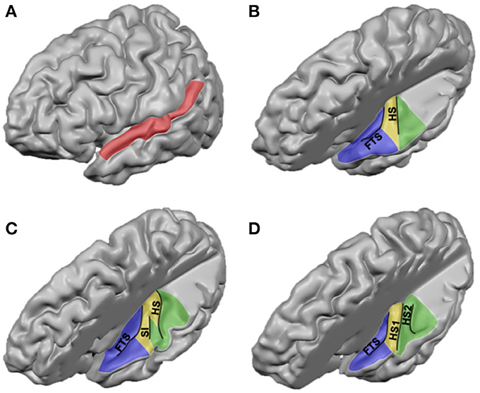 Anatomical landmarks on the human supratemporal plane. (A) Lateral view of the left hemisphere, with STG indicated in red. (B–D) Top view of left supratemporal plane, after removal of a large part of the parietal cortex. PP (planum polare), HG (Heschl's gyrus), and PT (planum temporale) are indicated in blue, yellow, and green, respectively. Major sulci are outlined in black (FTS, first transverse sulcus; SI, sulcus intermediate; HS, Heschl's sulcus; HS1, first Heschl's sulcus; HS2, second Heschl's sulcus). Panels include hemispheres with one HG, an incomplete separation of HG, and two HG in (B–D), respectively.